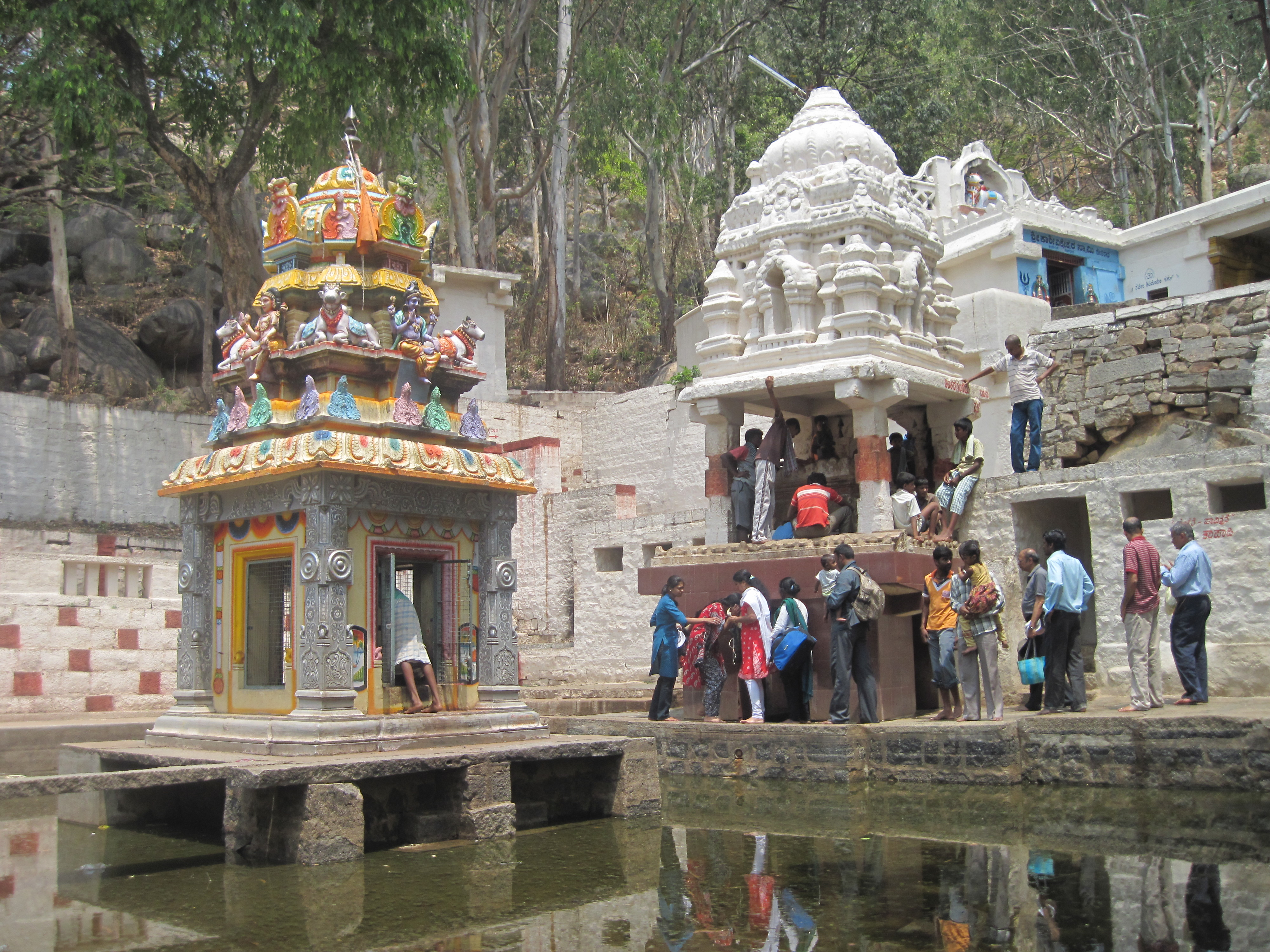 Antharagange, Kolar ಕನ್ನಡ: ಅ೦ತರಗ೦ಗೆ, ಕೋಲಾರ